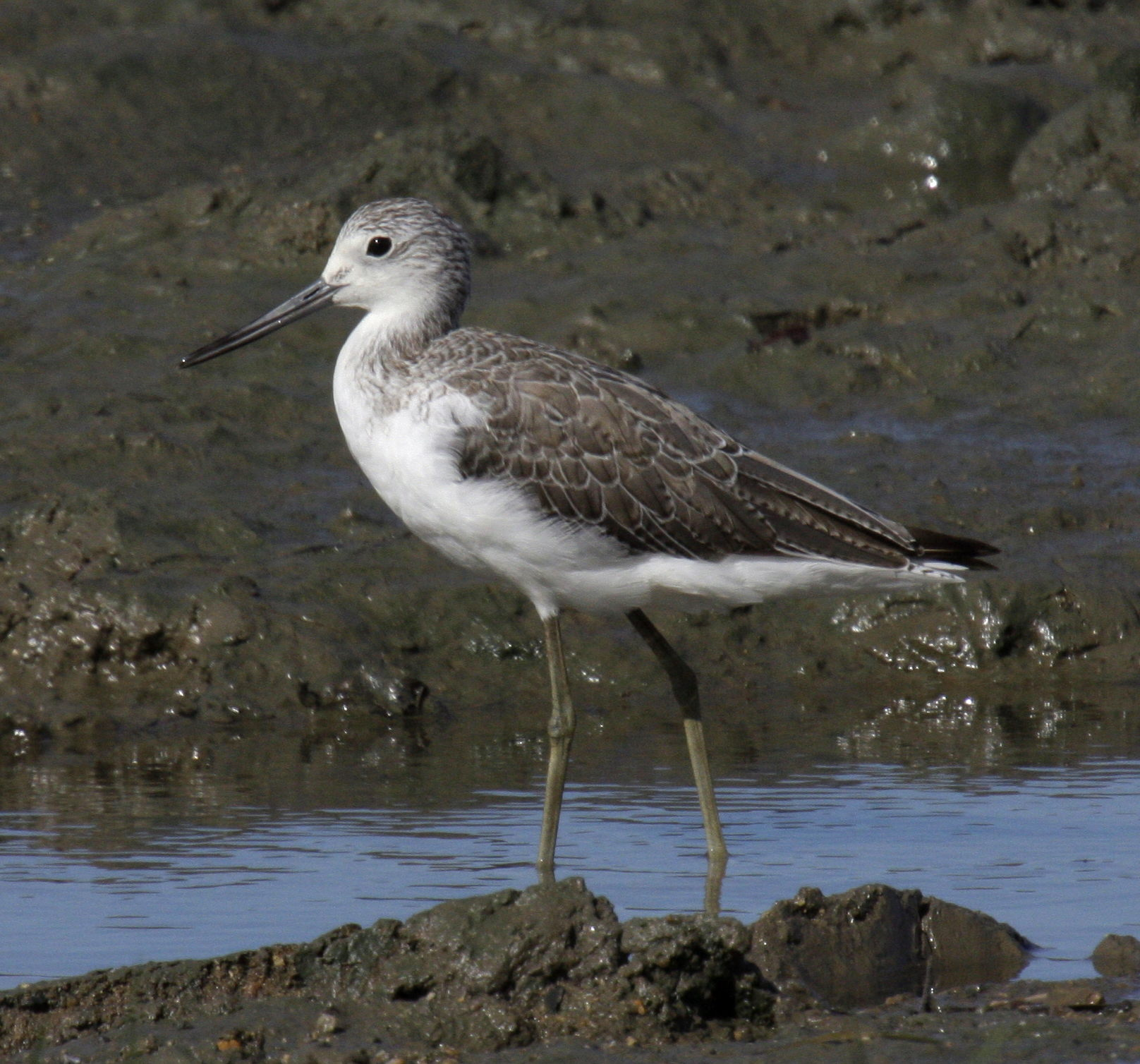 Juvenile Greenshank (Tringa nebularia) Cairns Esplanade, North Queensland, Australia